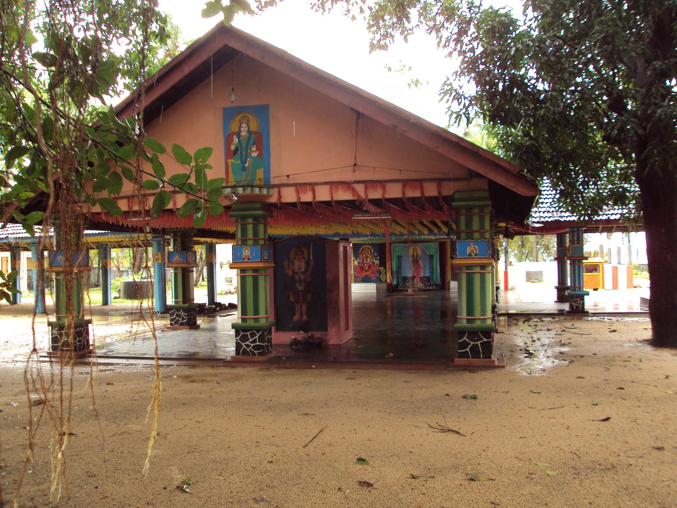 The north entrance of Thambiluvil Kannaki Amman Kovil